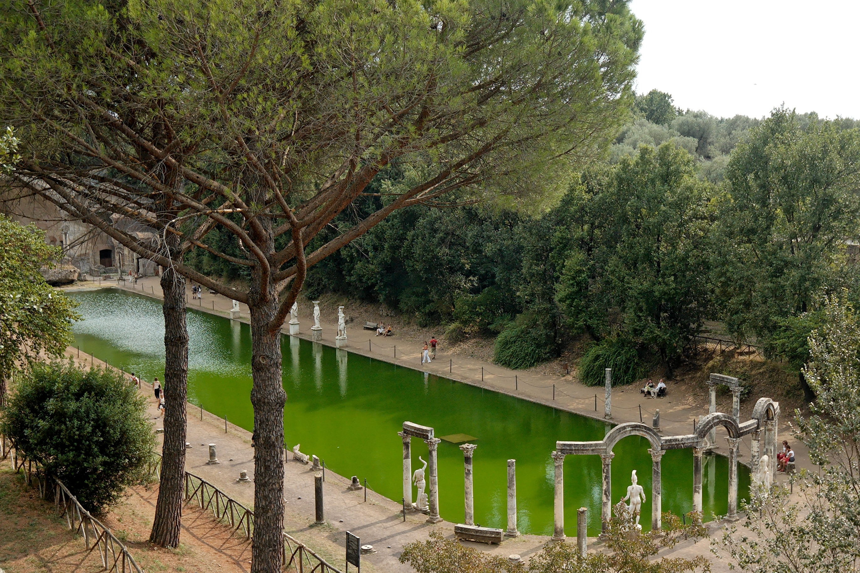 The Canope at the Villa Adriana in Tivoli. View from the Praetorium.